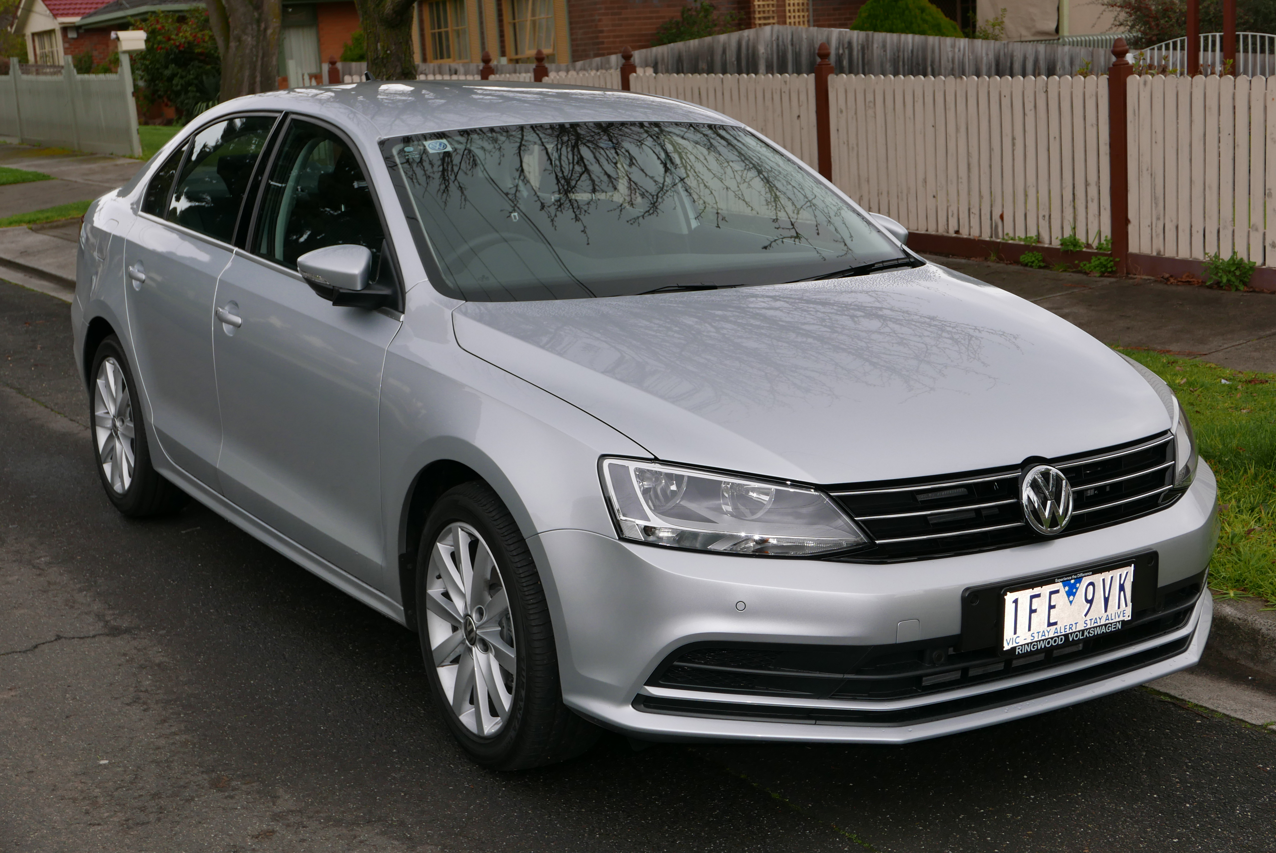 2015 Volkswagen Jetta (1B MY15) 118TSI Comfortline sedan. Photographed in Doncaster East, Victoria, Australia. Vehicle registration enquiry resultsJurisdictionVictoriaRegistration1FE9VKChassis codeWVWZZZ16ZFM042178Engine codeCTH211997Compliance date2015-06Year of manufacture2015